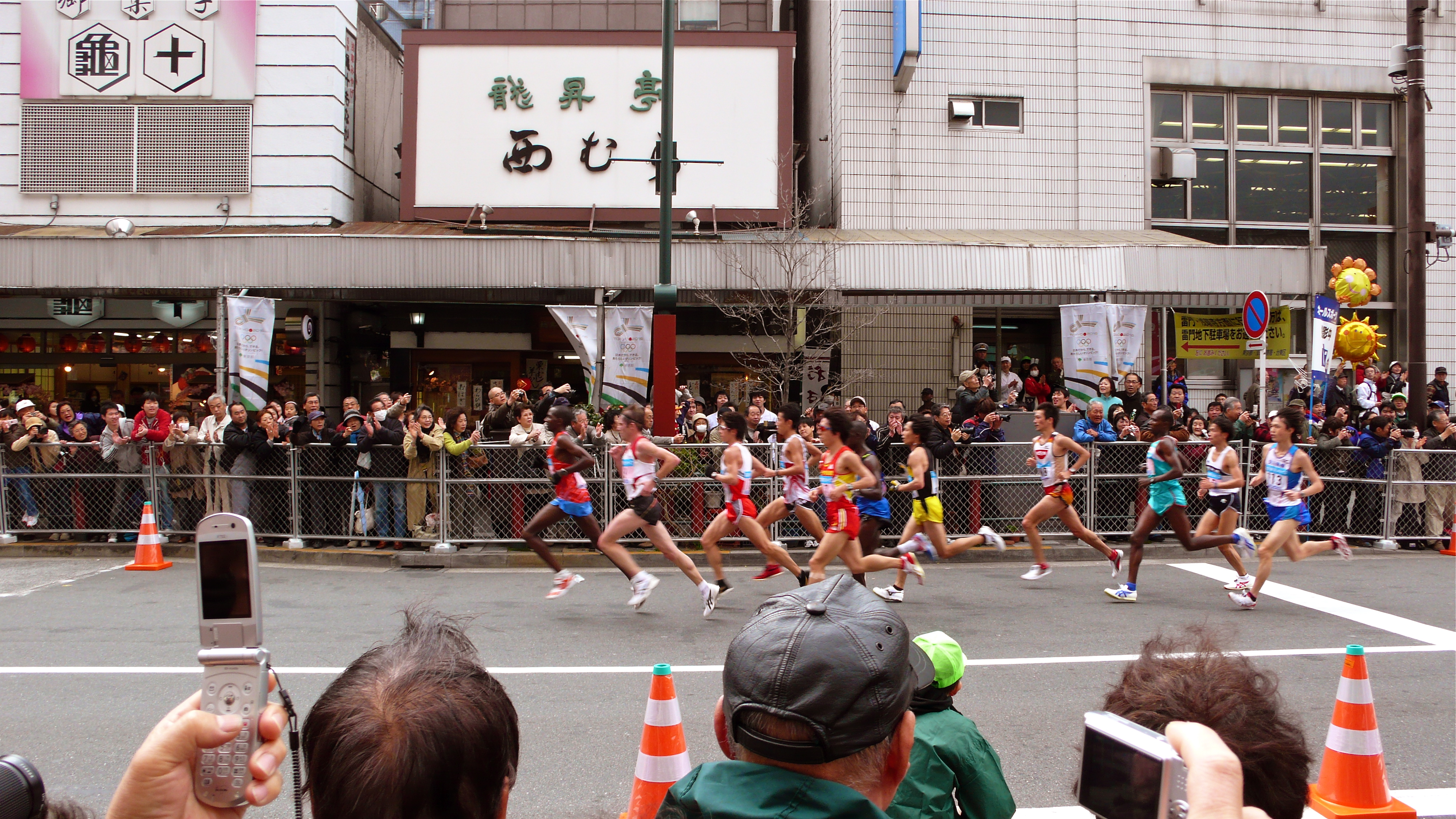 Runners in 2009 Tokyo Marathon